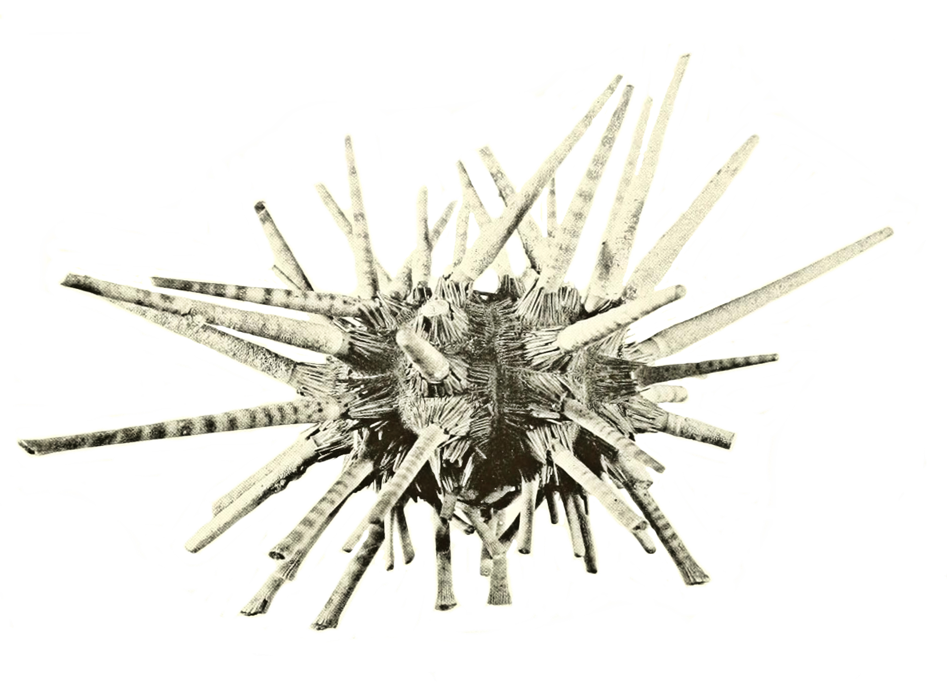 Plate 26. Fig. 1. Prionocidaris bispinosa var. laevis H. L. C. Holotype. Nat. size. (In the colored plates, all figures are shown natural size, with the aboral or (in holothurians) dorsal side up, unless otherwise stated. Unless designated as young, the specimens were normal adults but in some cases small individuals were selected to save space. In the uncolored plates, the dorsal side is shown, but in some species the oral side is also presented. As a rule the holotype serves as the basis of the photograph. The magnification varies but is indicated in each case.)